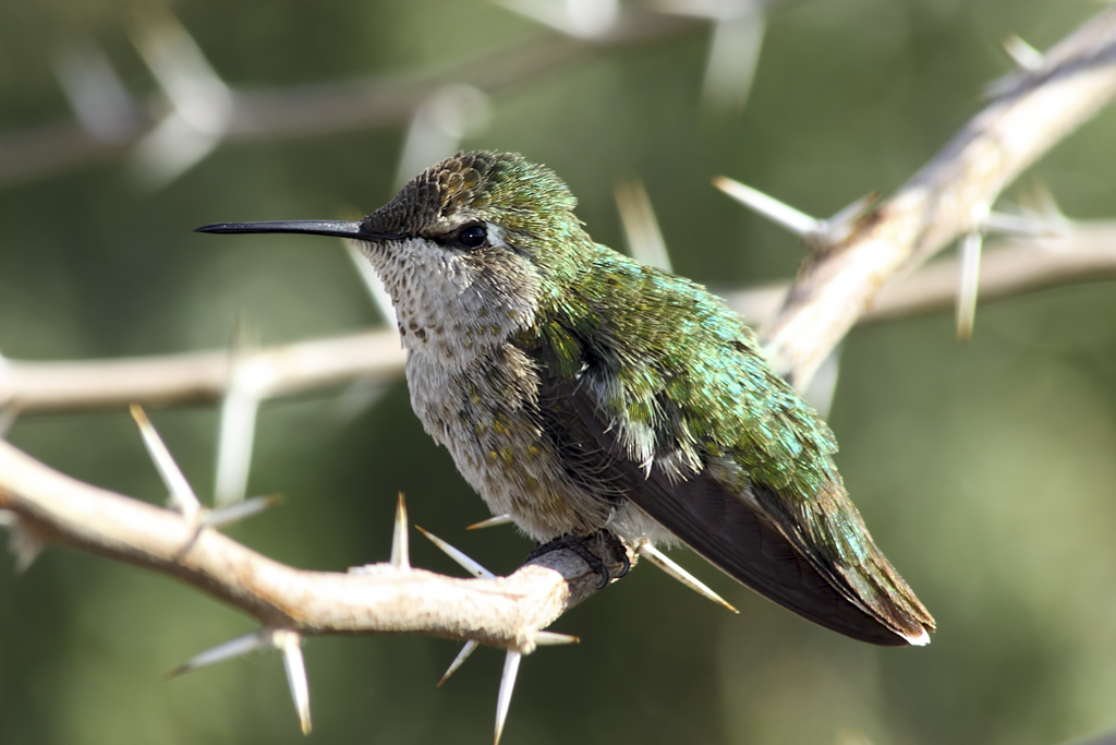 The main reason I suspect this to be a Costa's female is that it was hanging around with a male Costa's. I did not see any other species of hummingbird in the area. In addition, the wing tips just about cover the tail (as in a Costa's) and it does not have a central black patch on it's throat (as in a female Anna's) Any supporting or contradicting Id's welcome.